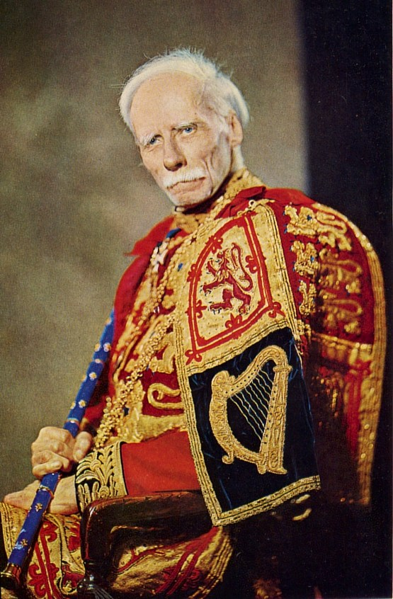 Former Lord Lyon King of Arms Sir Thomas Innes of Learney.